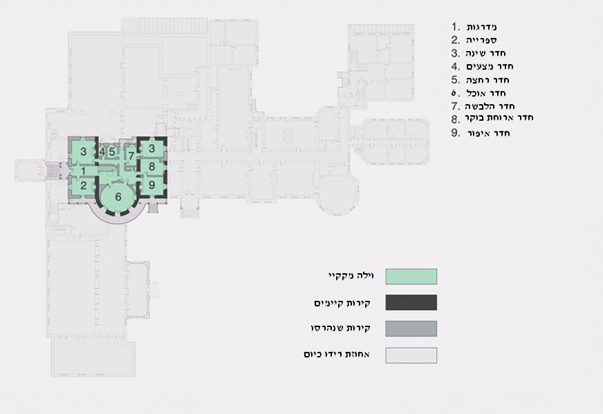 translation to Hebrew of Image:MacKayplan.jpg